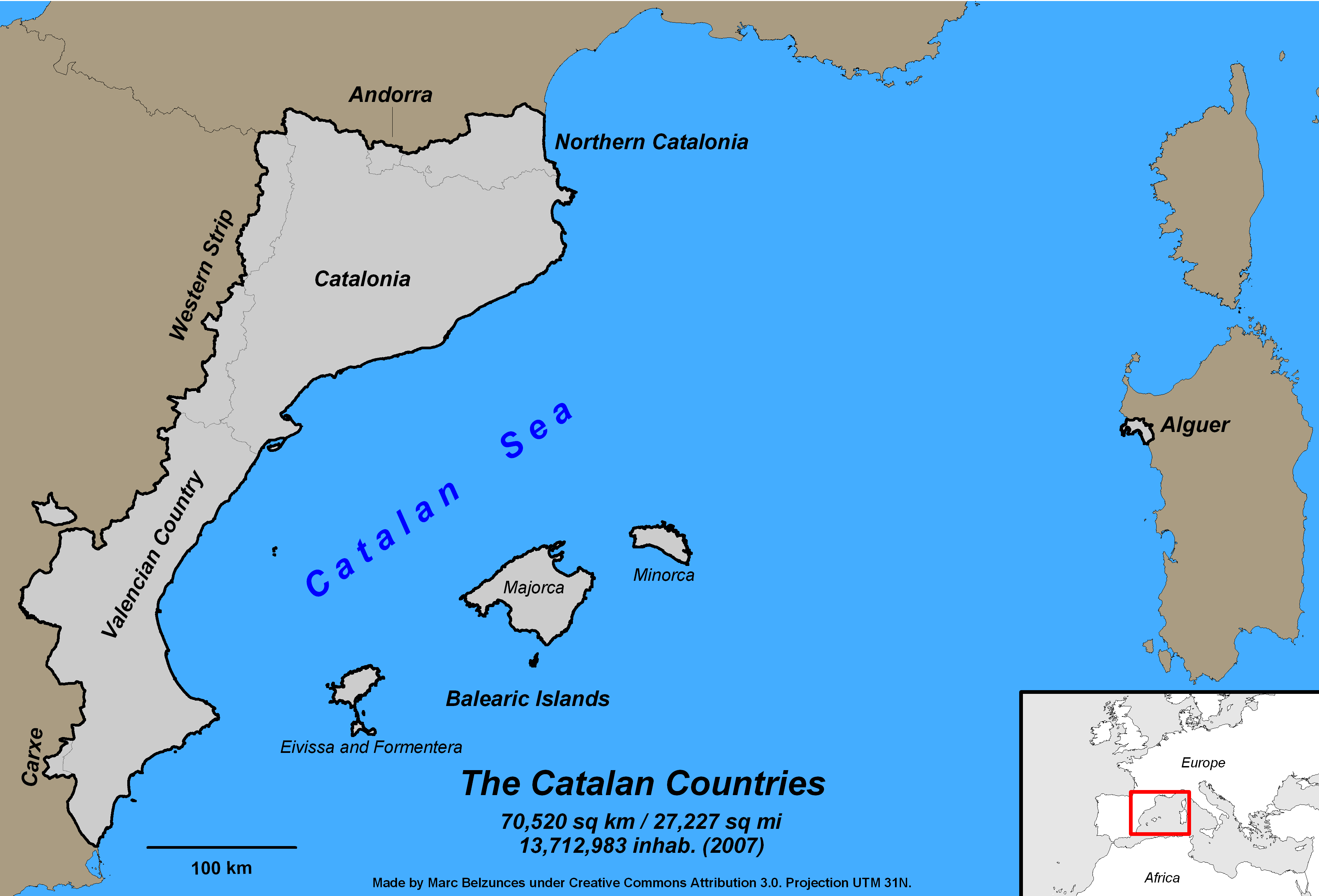 Map of the Catalan Countries, including the Catalan language domain. *Error: Balearic sea is the proper name to catalan sea, that never existed